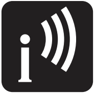 Wifi inverse - NPS Symbol